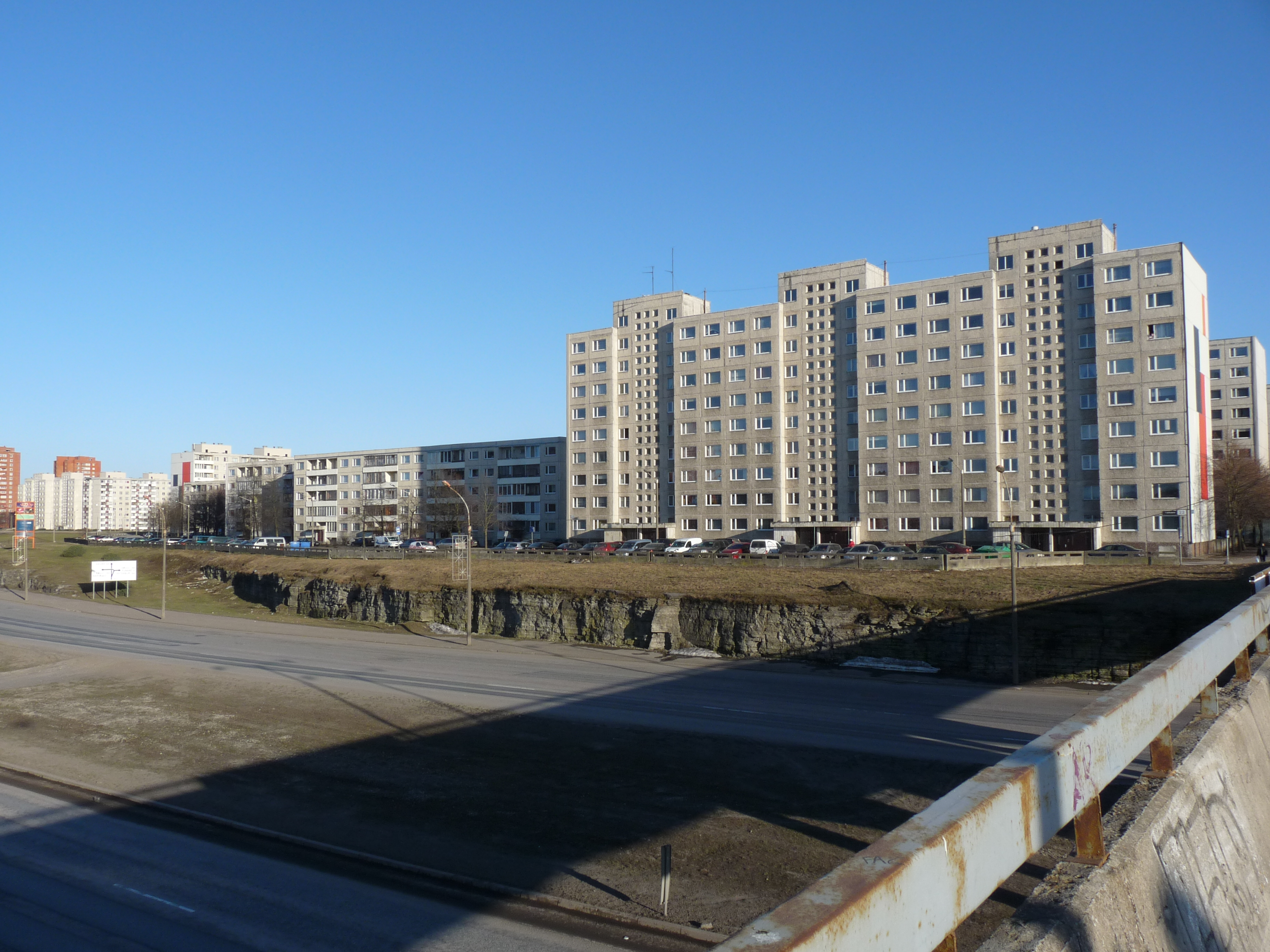 Paekaare street